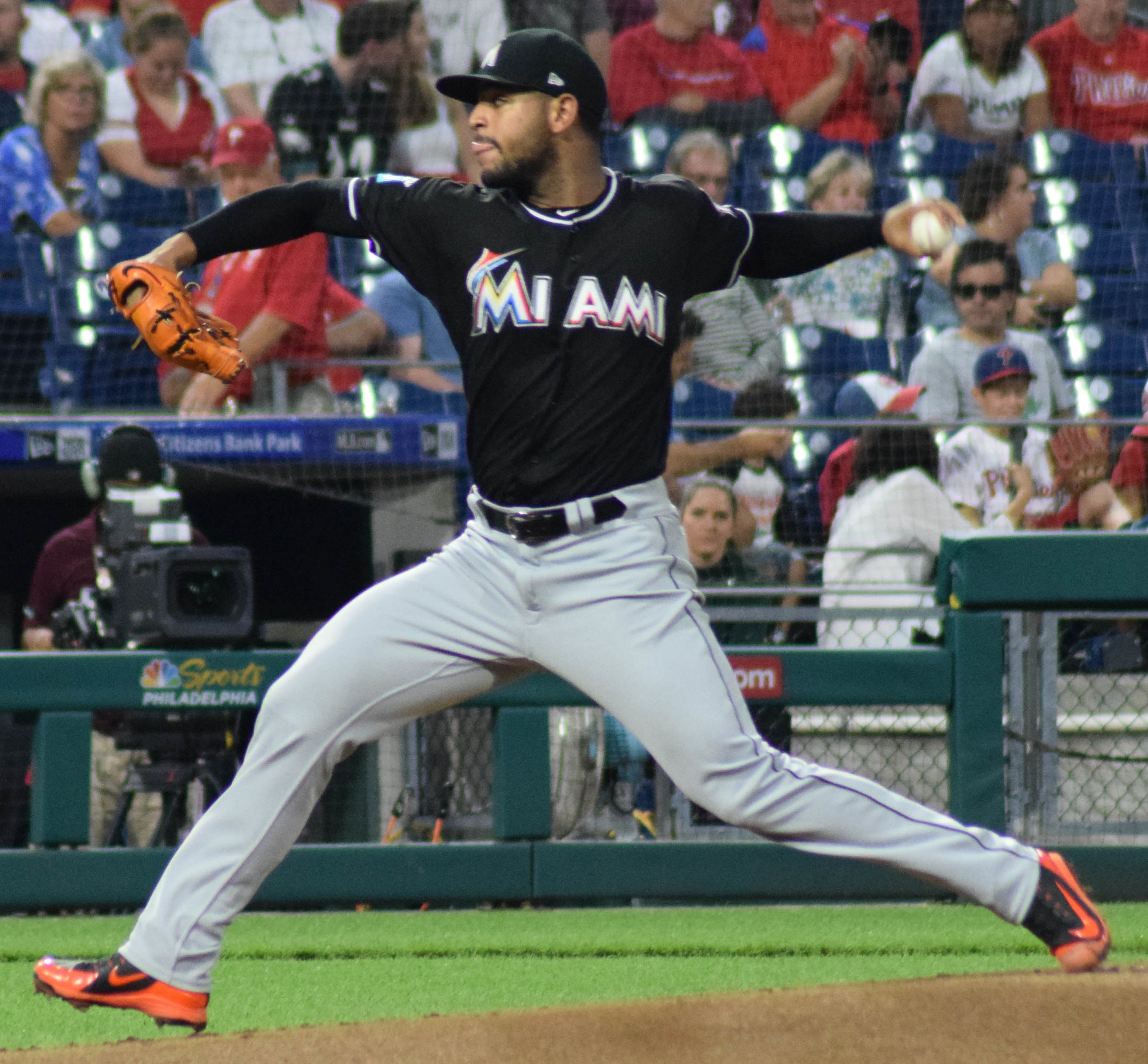 Jarlin Garcia delivers a pitch for the Miami Marlins at Citizens Bank Park in 2018